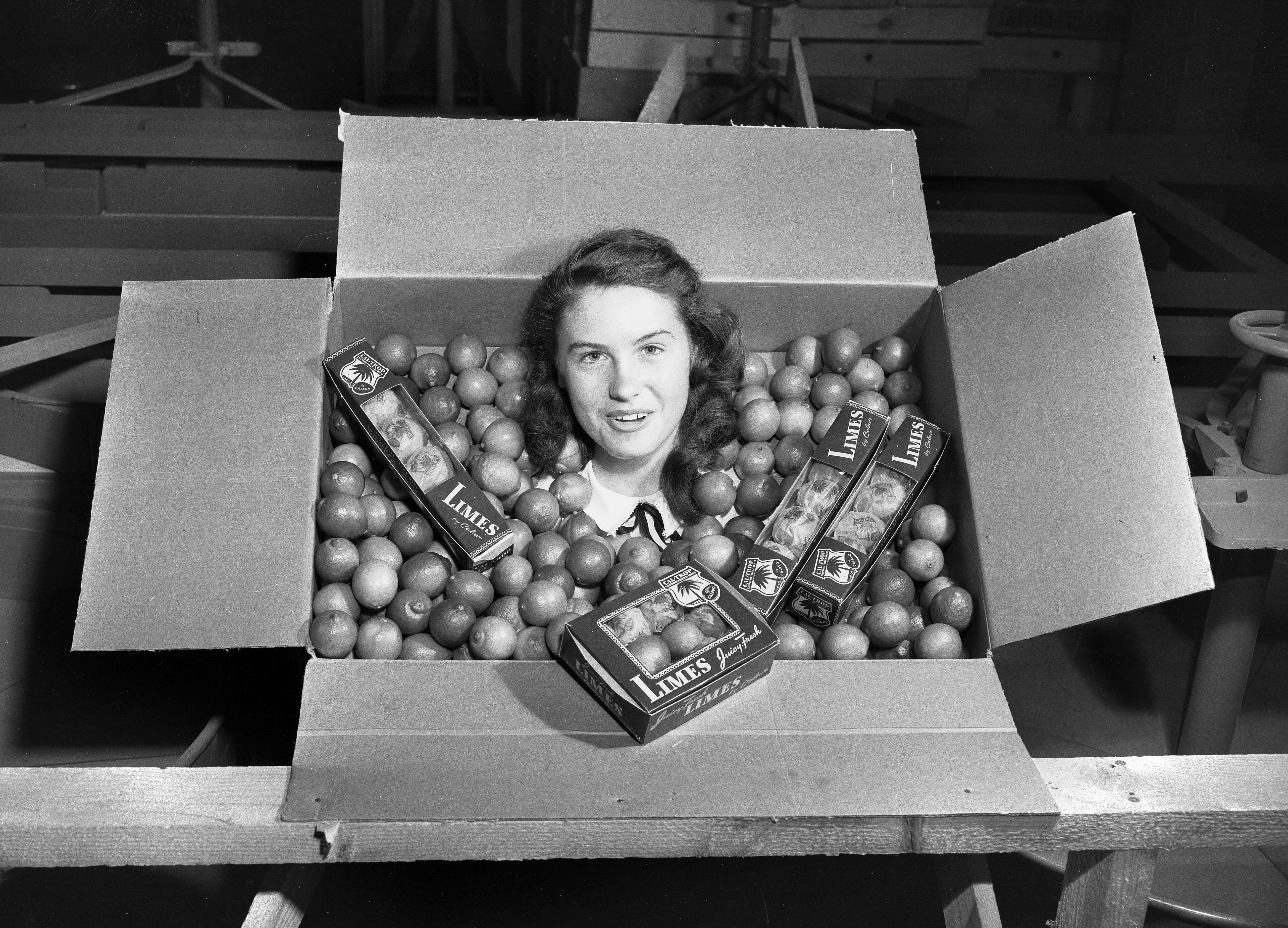 Title: Mary Lou Hill displays shipping packages used for limes Los Angeles, Calif., 1948 Published caption:MARKET AIDS -- Surrounded by juicy limes produced in Northern San Diego County, Mary Lou Hill inspects some of the attractive packages in which they go forth to markets. During off season in the avocado industry they are packed in an avocado plant. Publication:Los Angeles Times Publication date:September 8, 1948 Source:Los Angeles Times photographic archive, UCLA Library Licensing Note about non-renewal of copyright: [1]